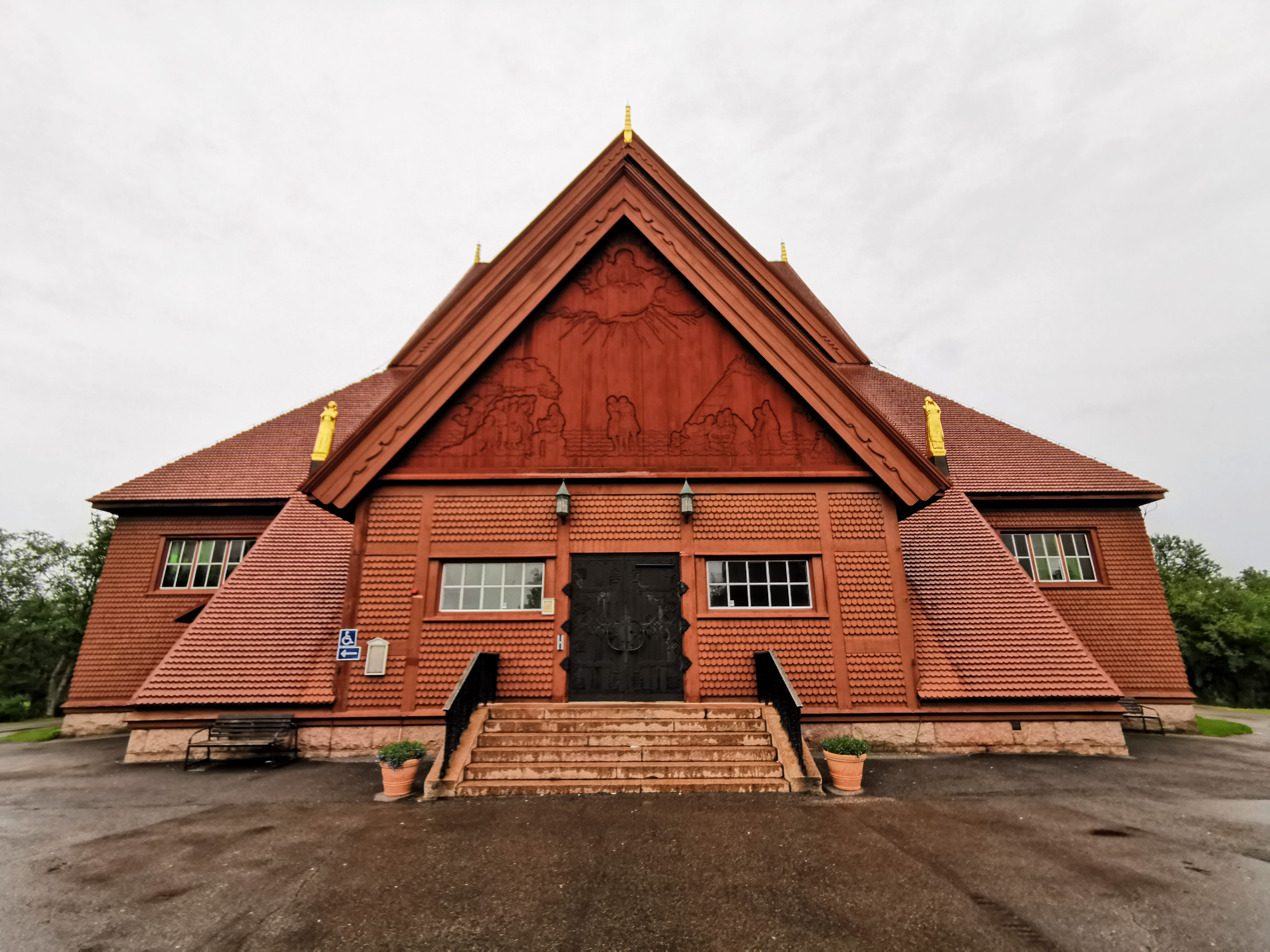 Kiruna church in July 2020